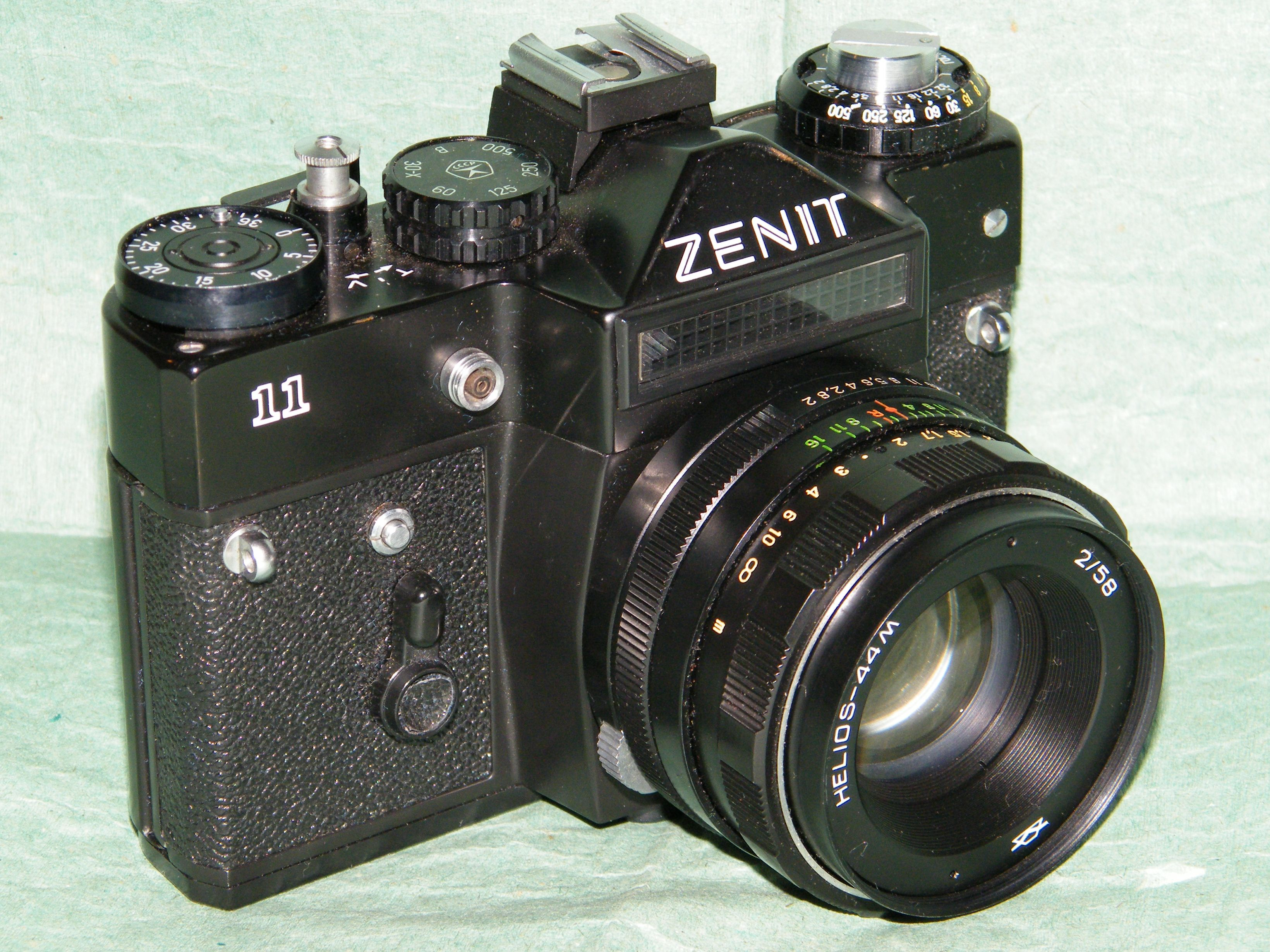 Zenit 11